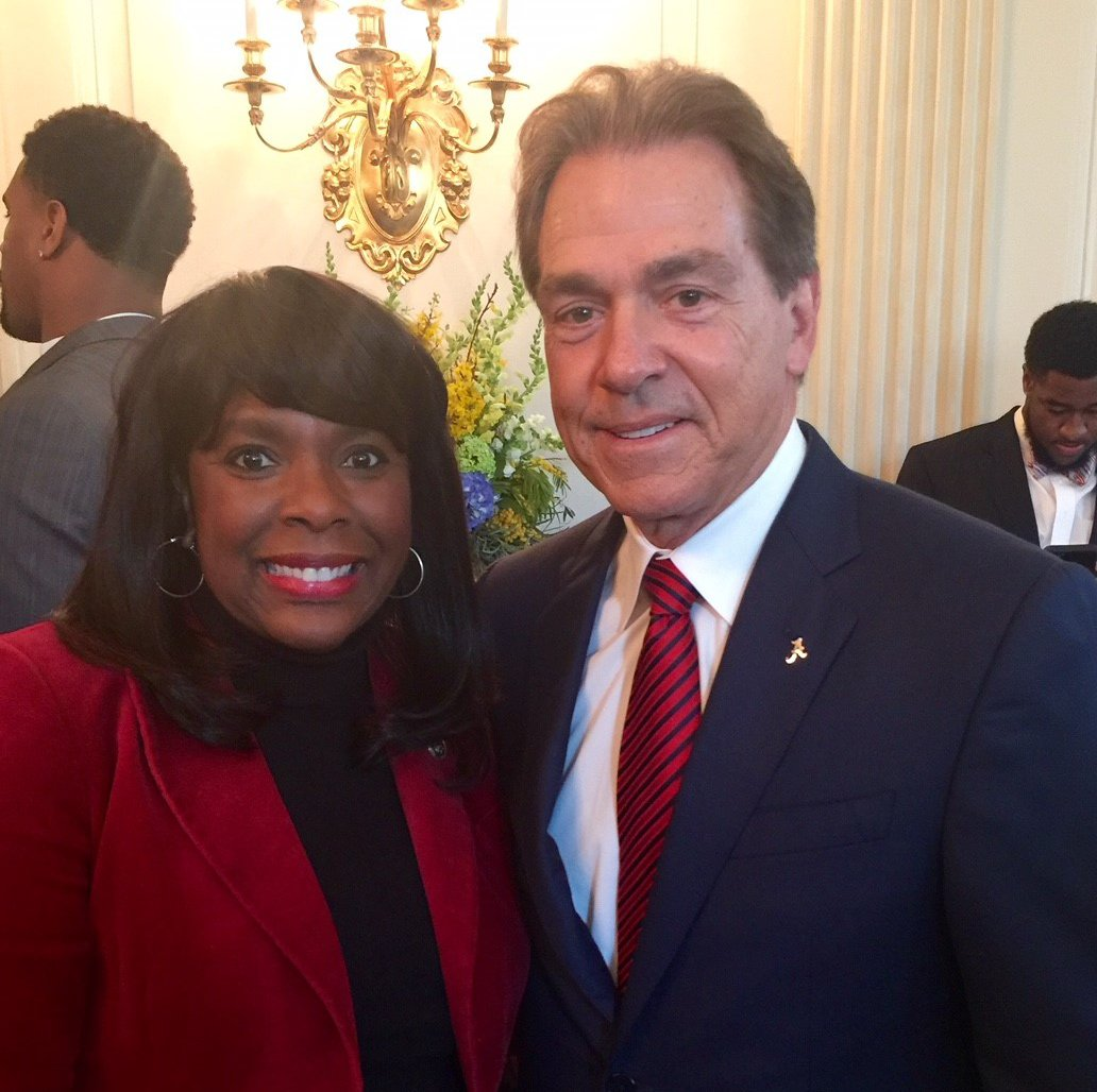 "What a win!! Congrats to the Tide! Six days to the national championship!"